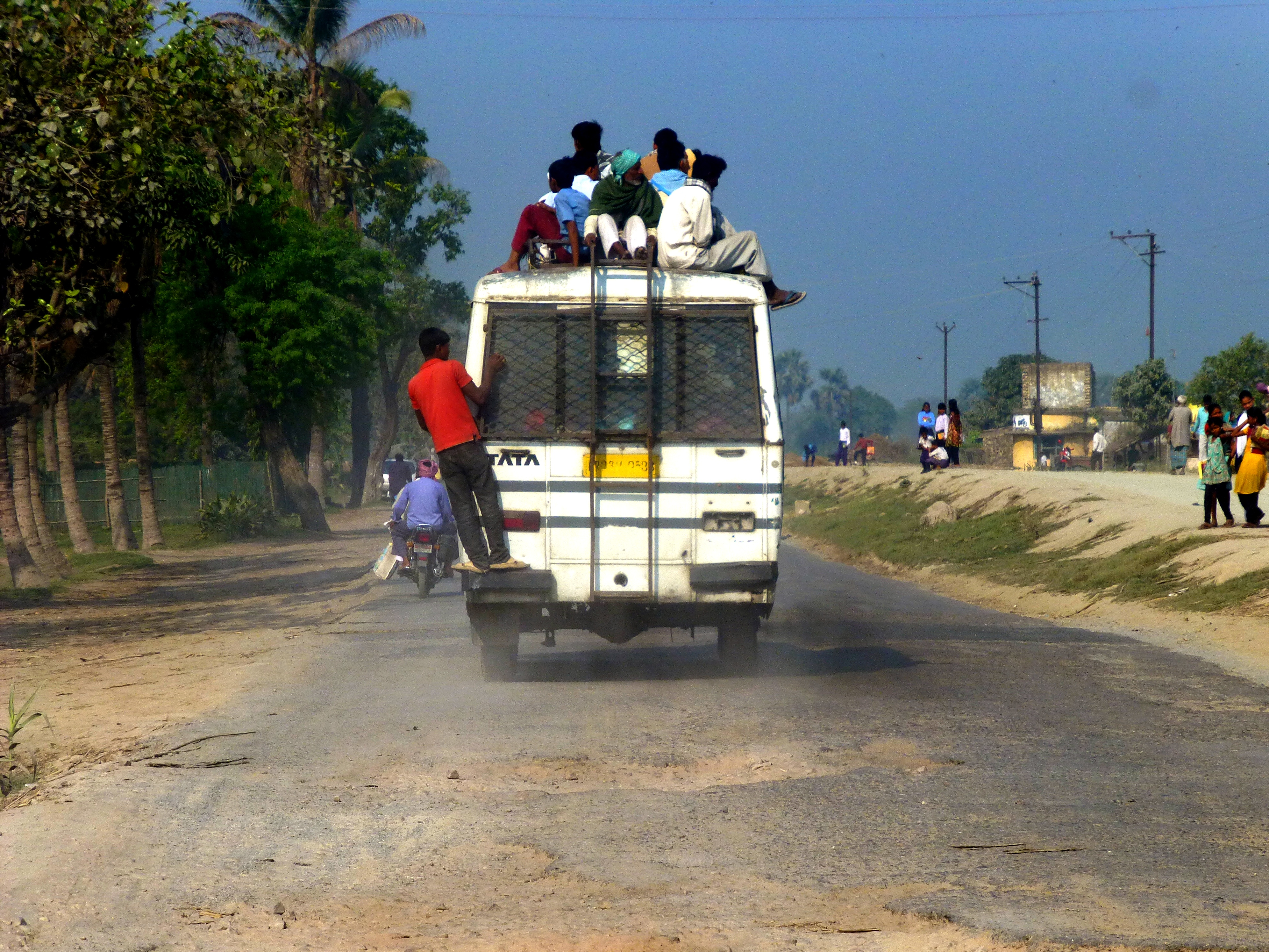 82 Overcrowded Bus. Somewhere in North India: Photograph taken by Anandajoti.